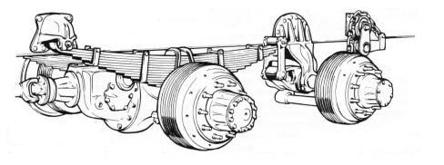 Sisu bogie system from the time before the Vanaja type lift bogie was taken to use.